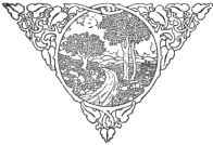 decorative motif, dingbat